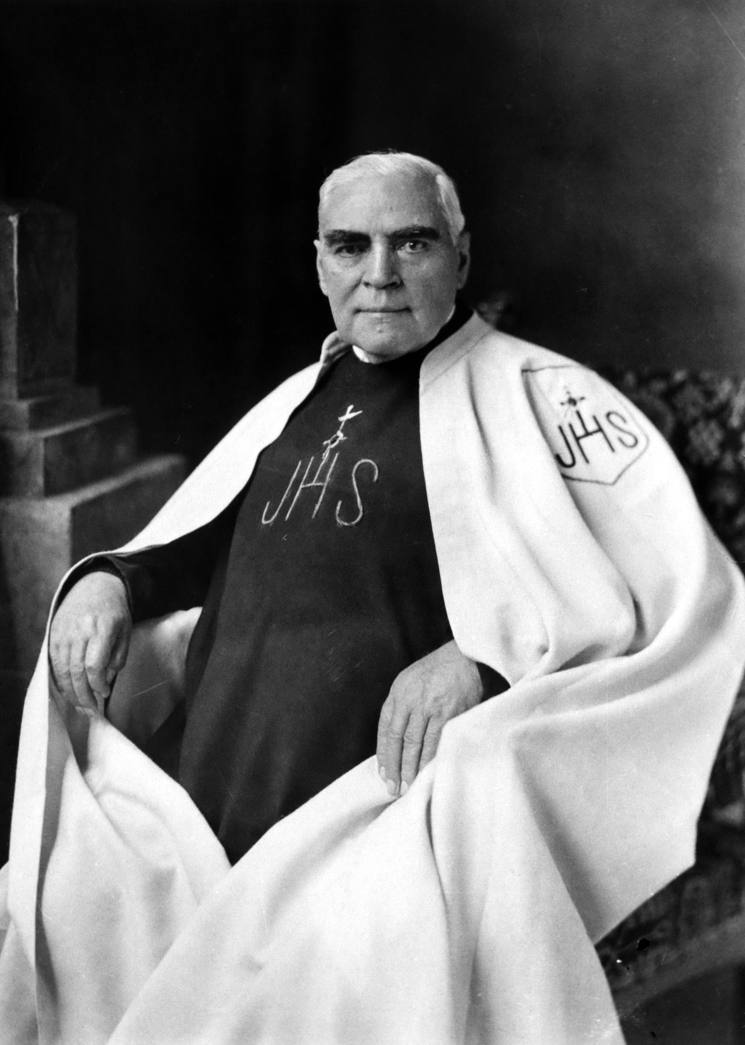 Felix Rougier a couple of years before his death